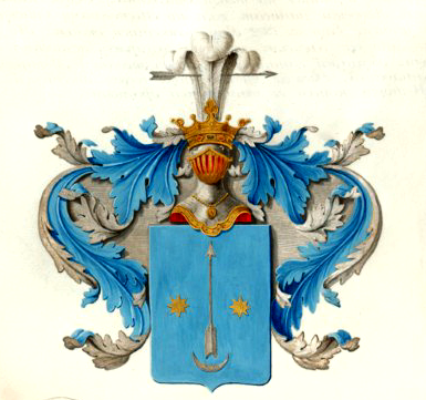 Coat of Arms of Yavorsky family